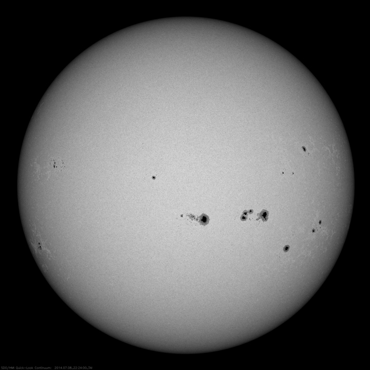 The Sun sported a whole slew of substantial sunspots over the past 11 days (July 1-10, 2014). This movie and still show the Sun in filtered white light speckled with more and larger sunspots than we have seen in quite some time. Sunspots are darker, cooler regions on the Sun created by intense magnetic fields poking through the surface. The Sun may have passed its peak level of activity, but it will still be producing many more sunspots and solar storms during the rest of this solar cycle. The still image was taken on July 8 at 22:24 UT. Credit: Solar Dynamics Observatory/NASA.